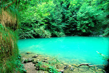 Source of Kupa.